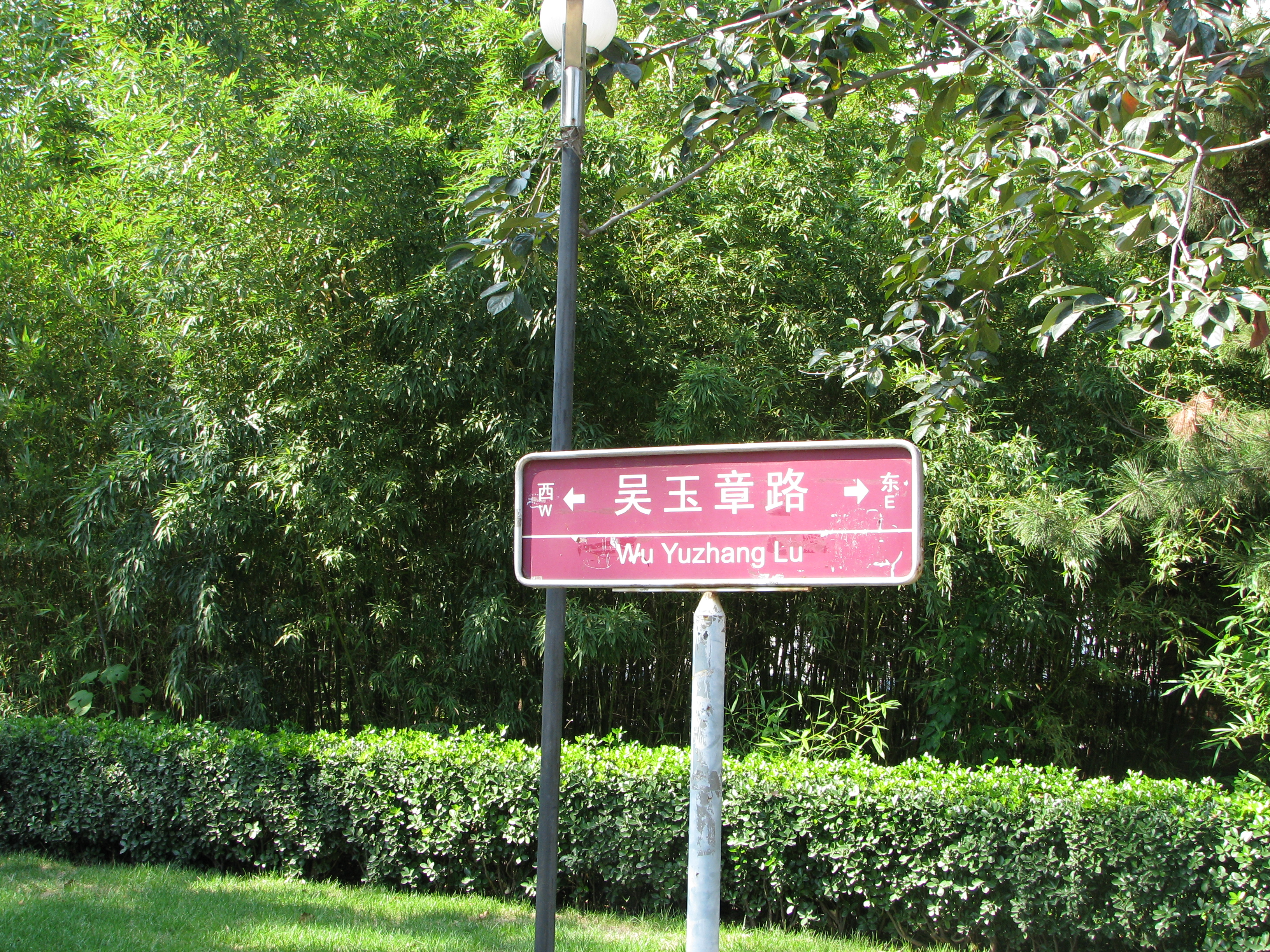 Wuyuzhang Road in Renmin University of China